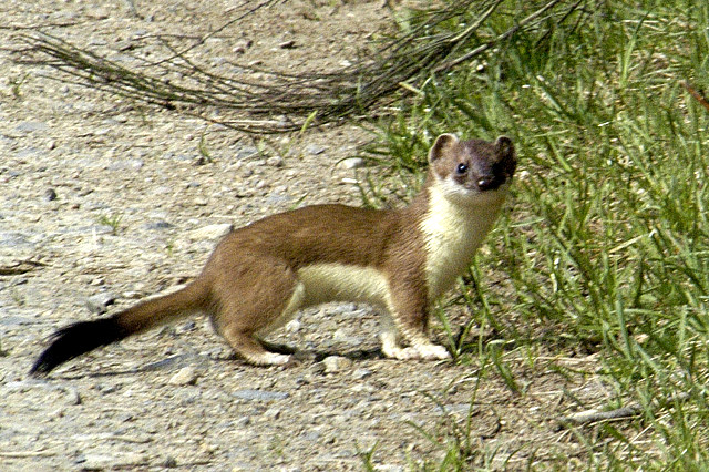 Mustela erminea from Commanster, Belgian High Ardennes